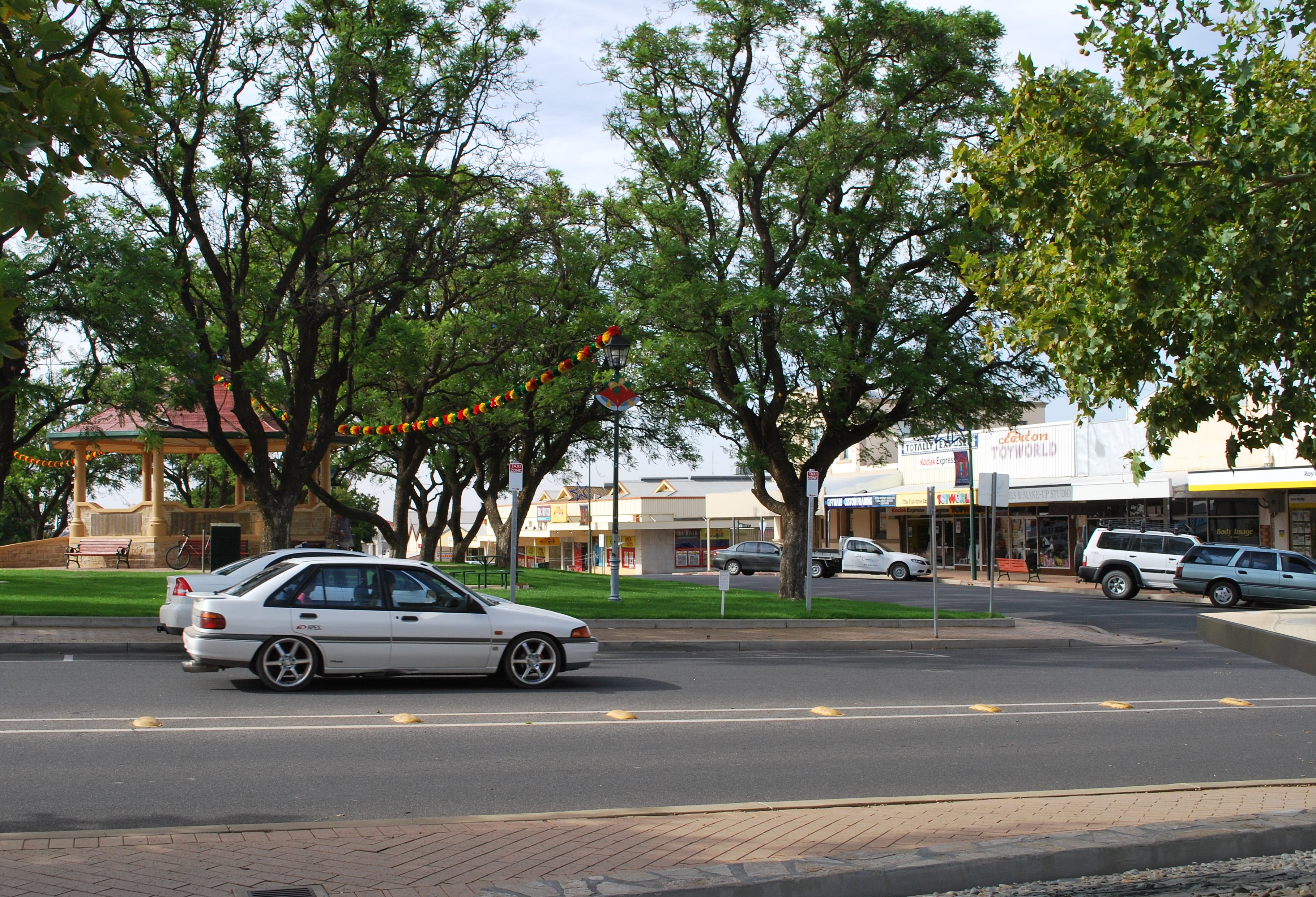 Part of the main street of Loxton, South Australia